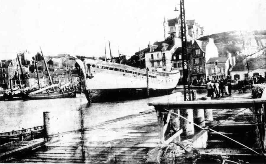 The "Georges Clémenceau", last Three-Mast built in Cancale, France